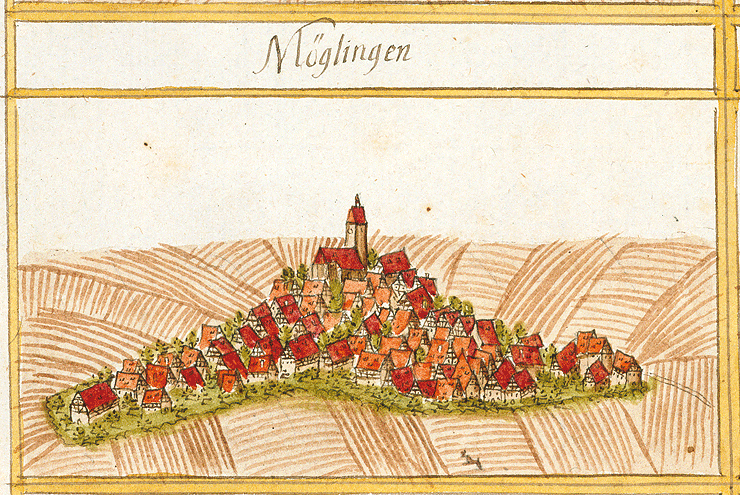 View of Möglingen from the forest register books created by Andreas Kieser